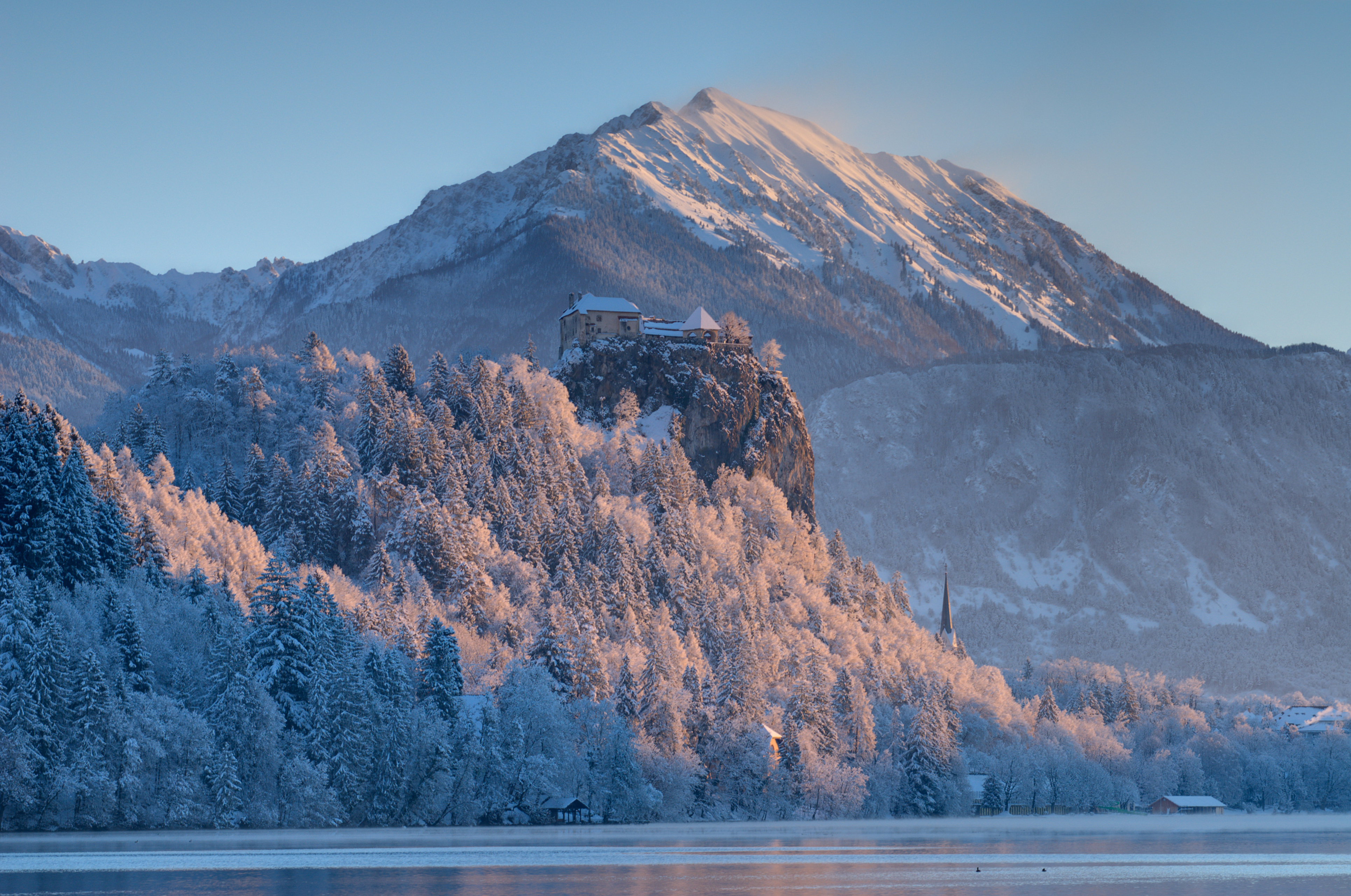 Bled Castle in winter, with Mt. Stol in the background